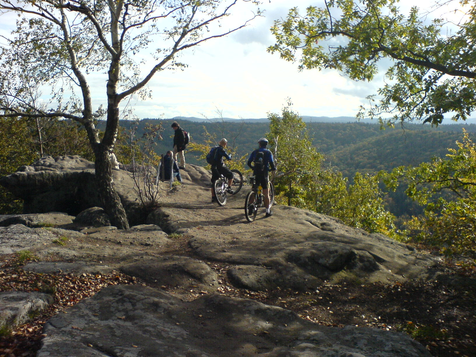 Hikers and Mountainbikers on top of the Drachenfels (Dragons Rock) in the Palatinate Forest. But in this nature reserve mountainbiking is not allowed ...